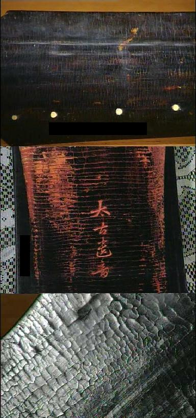 Several photos of the duanwen of qins, 2005